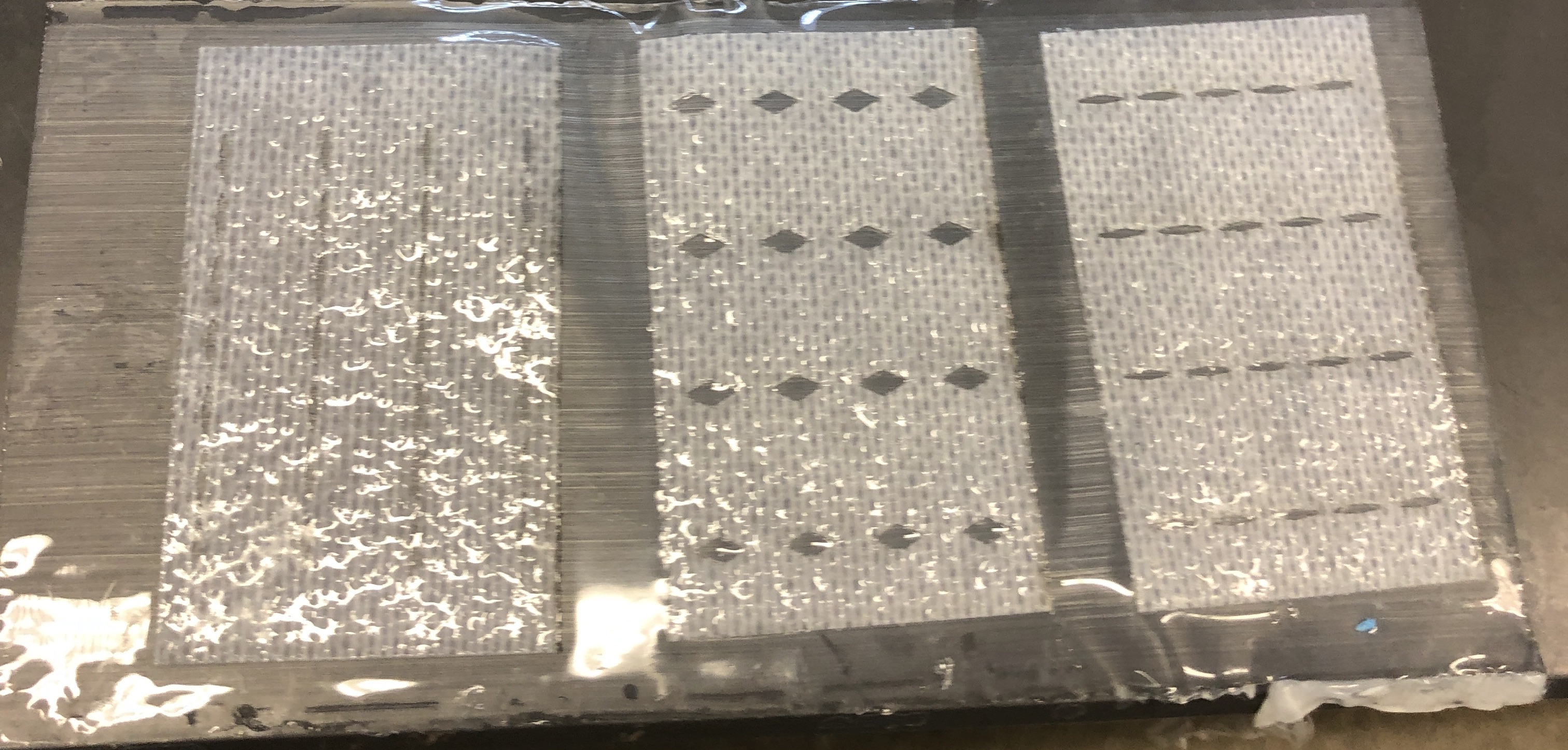 This represents what PDMS looks like.